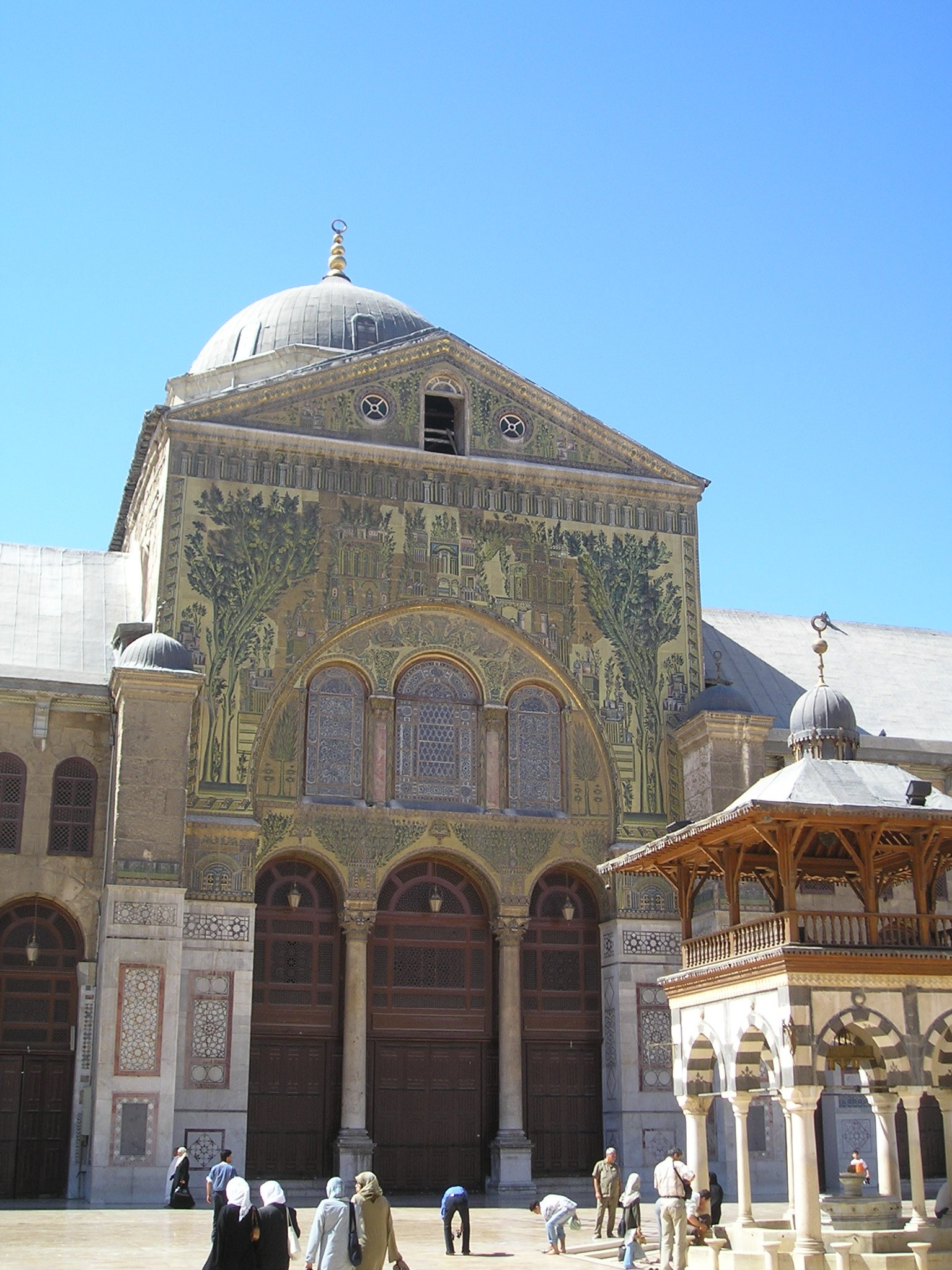 Damascus, Syria - Umayyad Mosque: golden mosaics at the central part of the southern side of the courtyard.